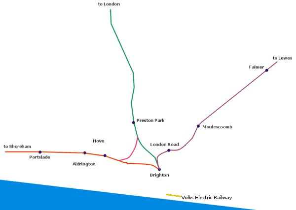 Railway network in Brighton. Map mostly extracted from frame 19 of File:Brighton Railway development.gif, with some small tweaks.